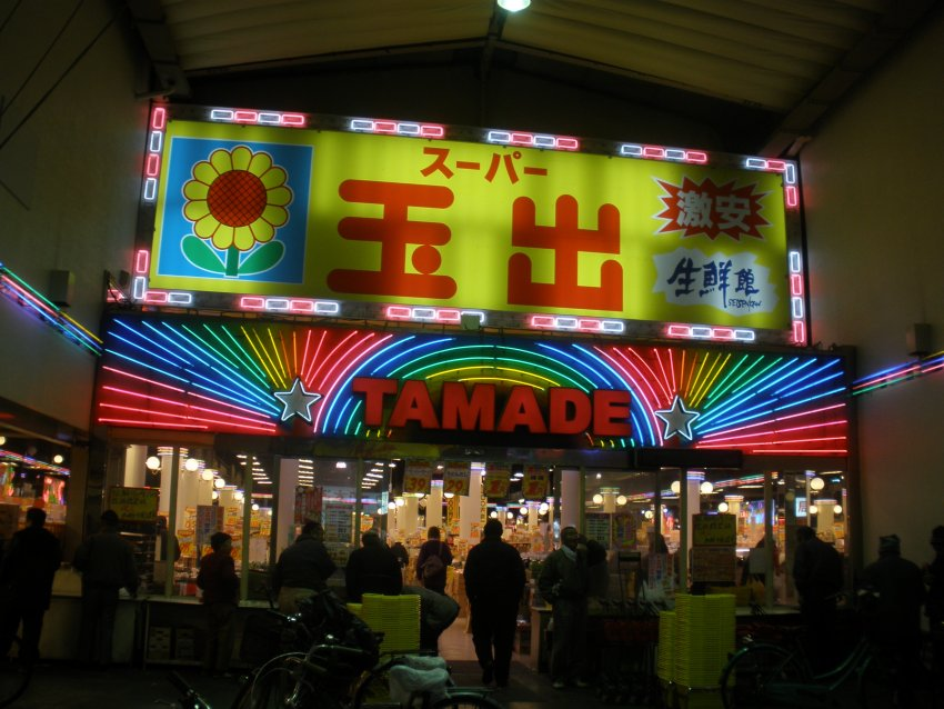 Tamade Supermarket chain whose name unfortunately has a pronunciation very similar to the Mandarin profanity "tā mā de" (他媽的).